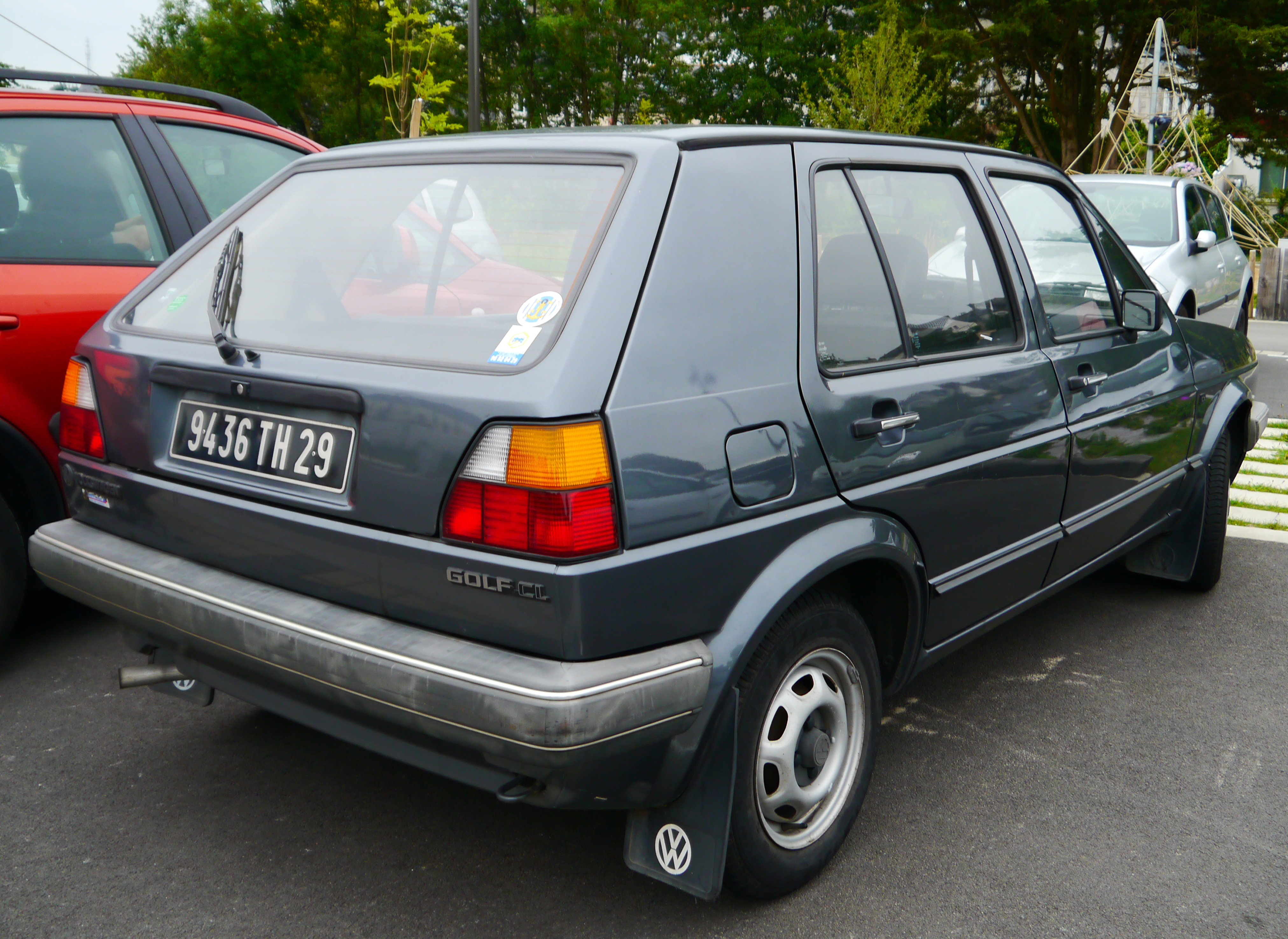 1984 Volkswagen Golf II CL - on its original plates it seems...